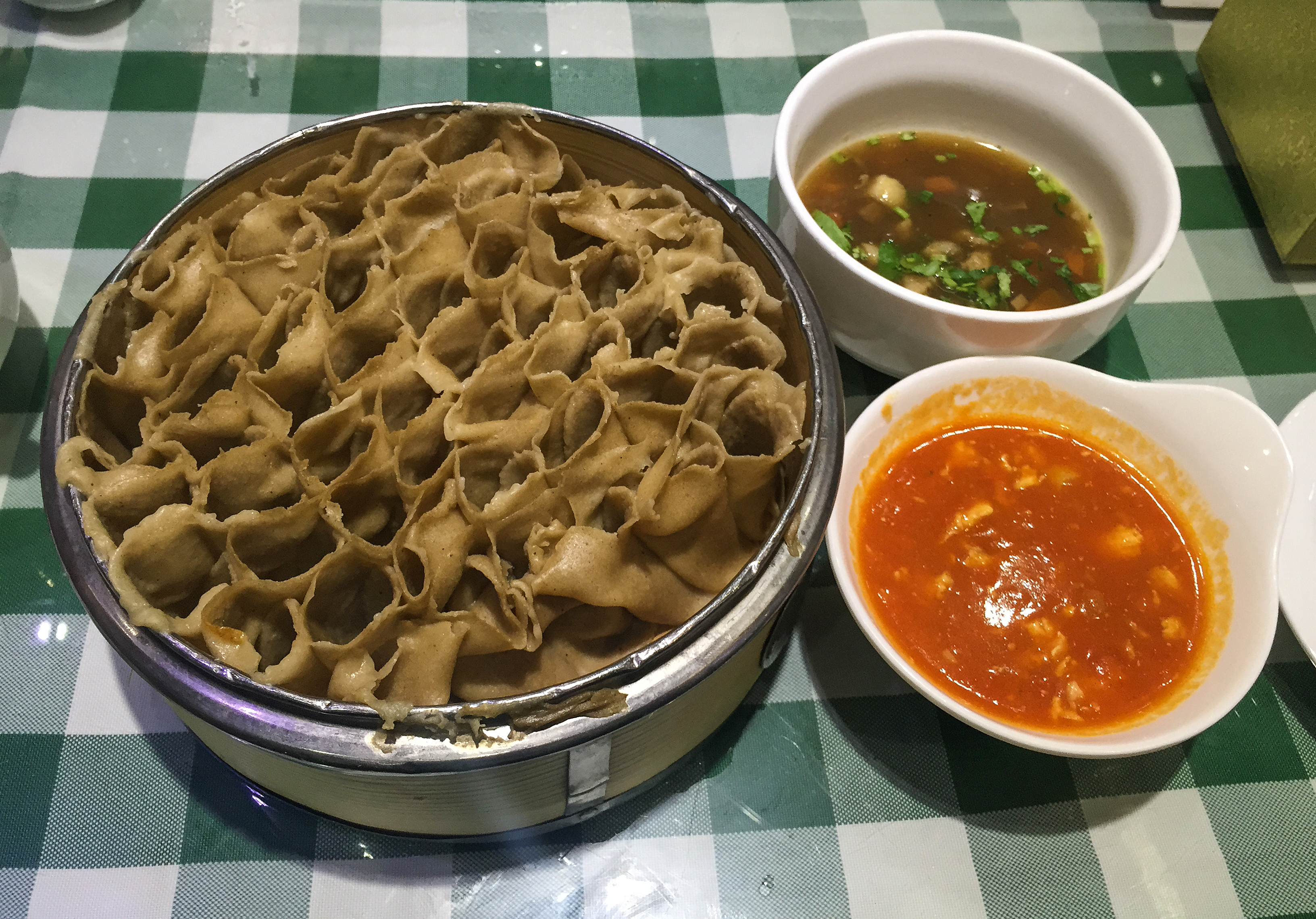 The name of this oat-based dish is "莜面栲栳栳", but the translation can be difficult.